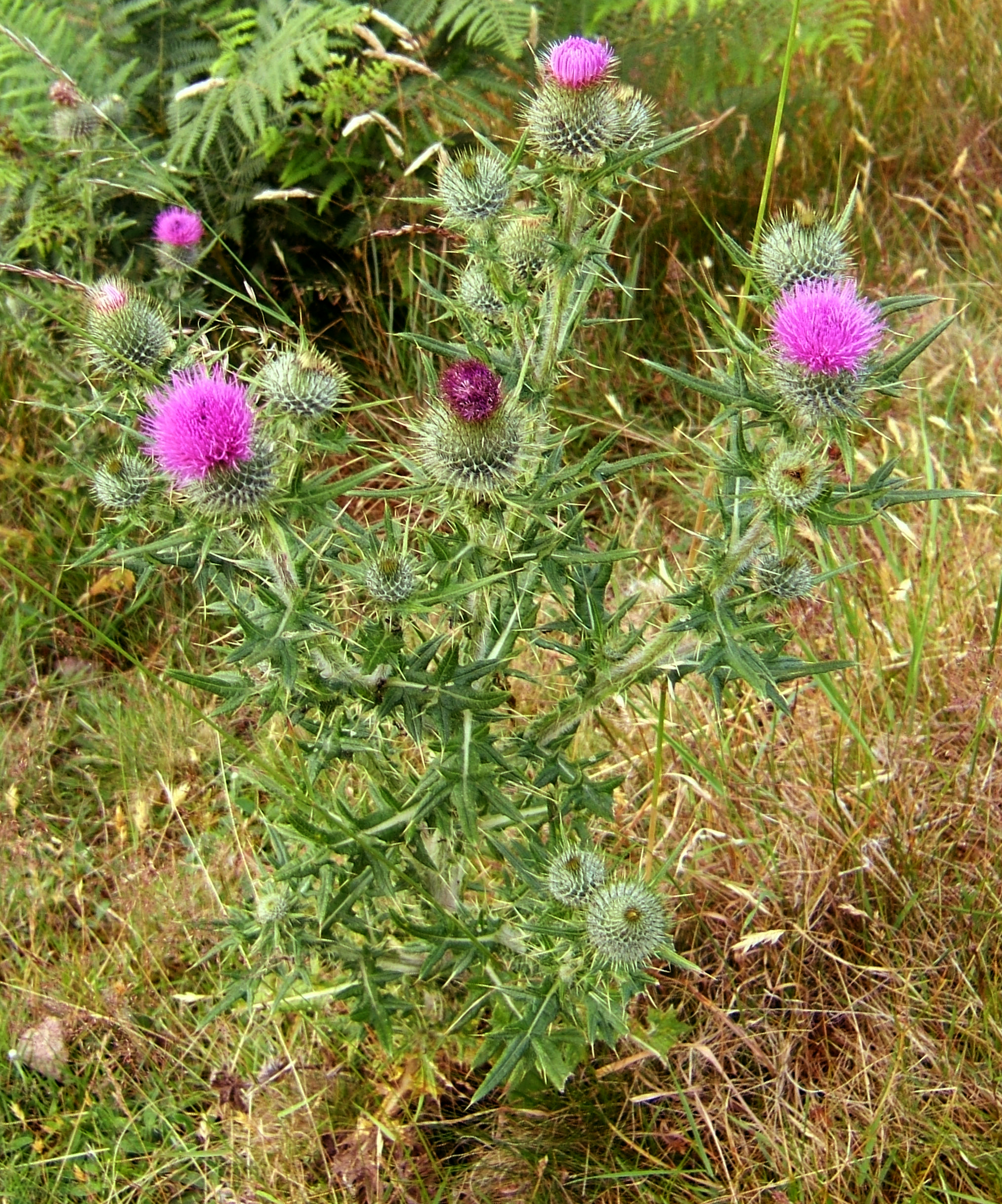 Spear Thistle Cirsium vulgare, Harthope Valley, Northumberland, UK.